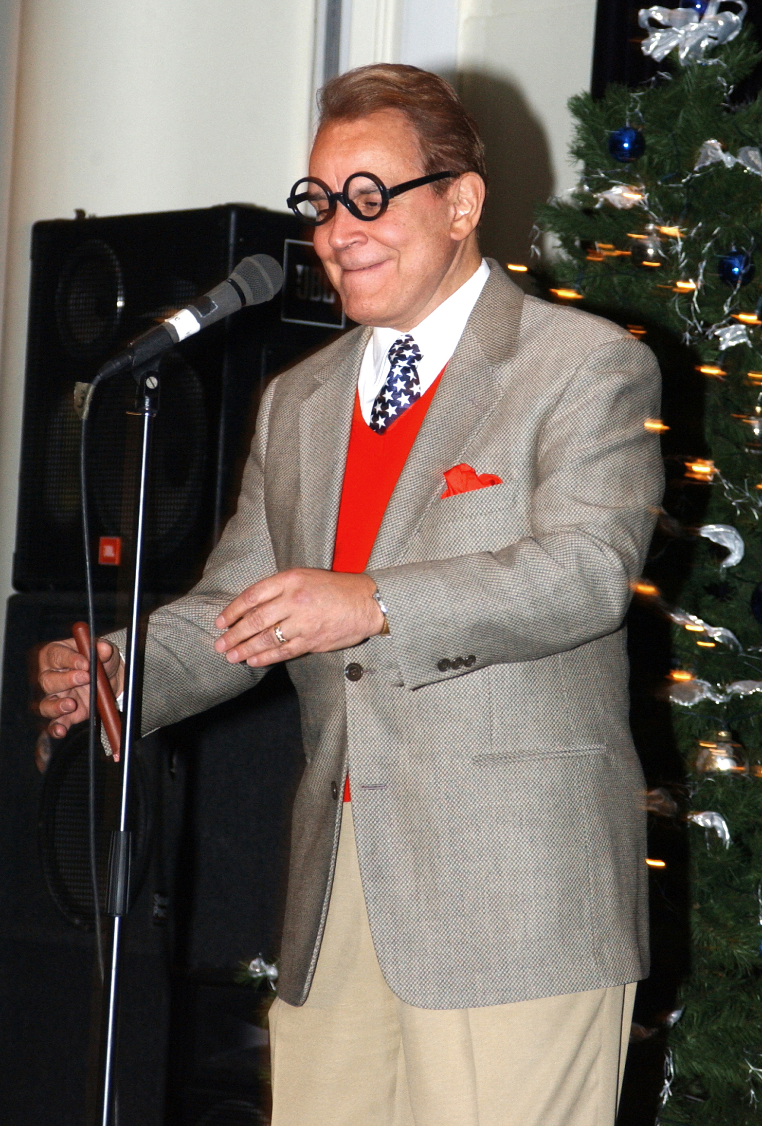 Rich Little, Canadian comedian and impersonator performs at Incirlik Air Base, Turkey as part of the United Service Organizations and Armed Forces Entertainment 2004 Holiday Tour.